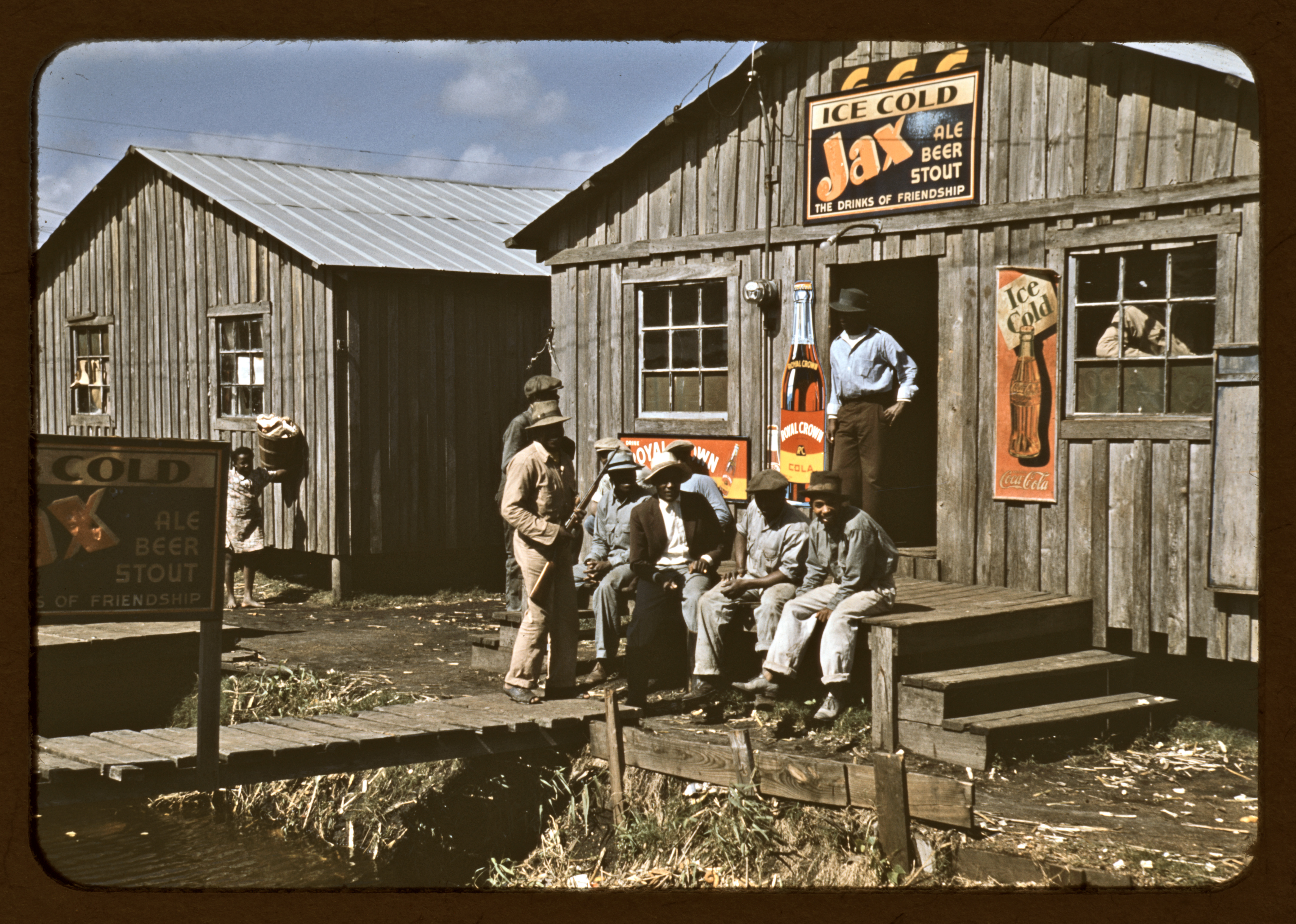 Migratory laborers outside of a "juke joint" during a slack season, Belle Glade, Florida. Photographed by Marion Post Wolcott for the U.S. Farm Security Administration in 1944.